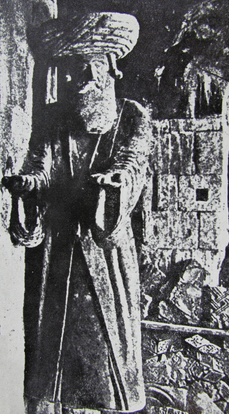 A photograph taken by Nicholas Marr's expedition team while excavating the city of Ani during the early 1900s showing a statue of Armenian King Gagik I Bagratuni. This image was originally printed in one of Marr's books, and is scanned from one of the many reproductions in Armenian journals and books.